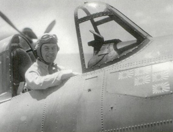 Jimmy Flatley sits in his F4F-4 Wildcat—decorated with his victories at Coral Sea, Santa Cruz, Guadalcanal, and Rennell Island—aboard the USS Enterprise's deck.